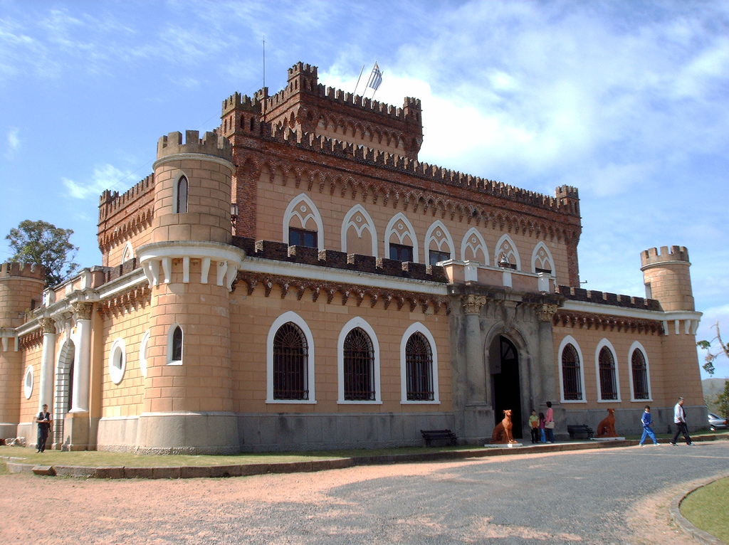 Piria's Castle in the city of Piriápolis, Maldonado Department, Uruguay